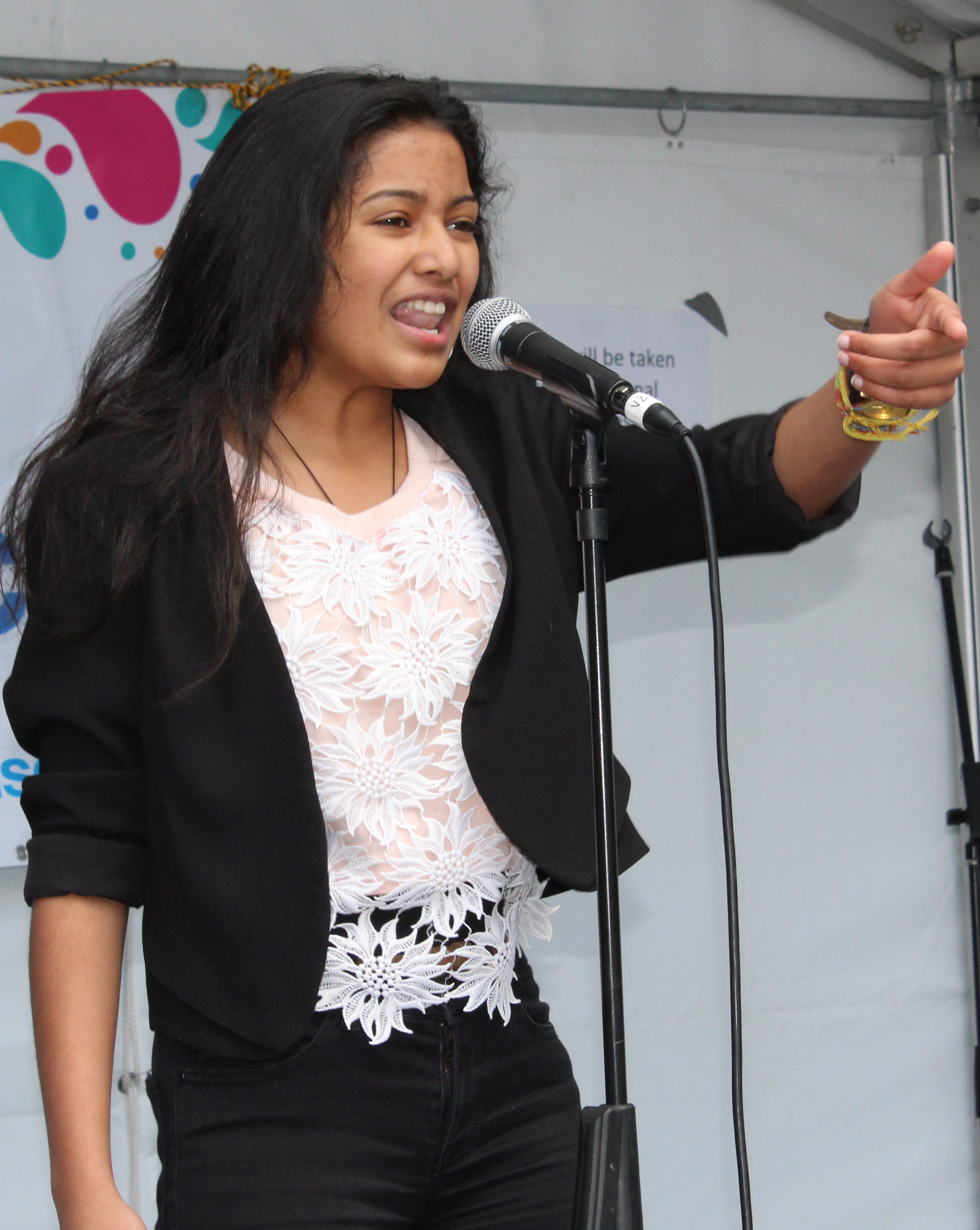 Jessie Hillel